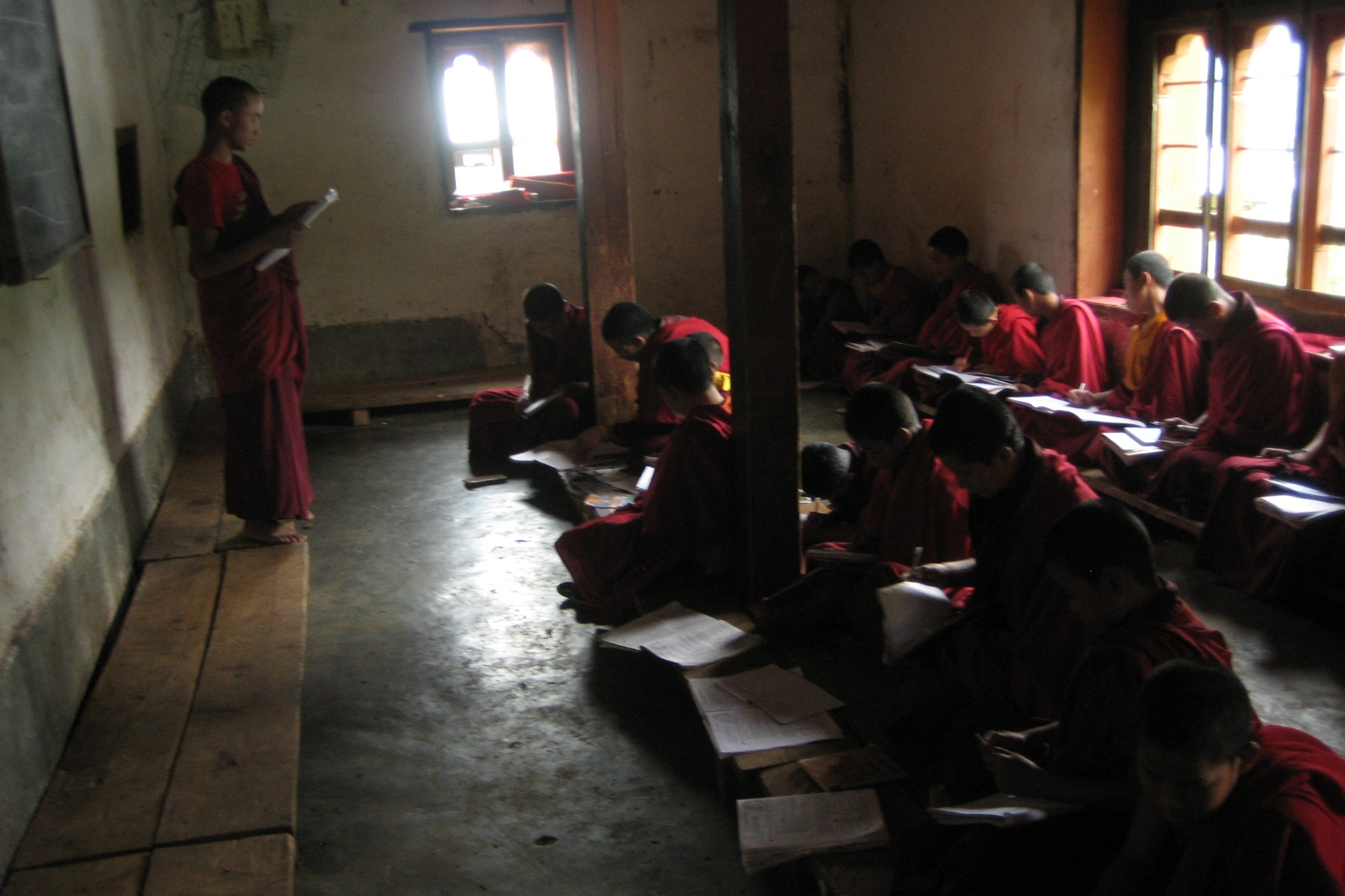 Junior monks studying English at the Nalanda Buddhist Institute (NBI,) — in Punakha District, central Bhutan.